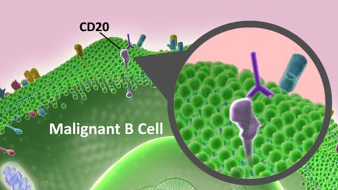 Example: Rituxan® (rituximab) Rituxan® (rituximab) isi a good example of a monoclonal antibody that can activate the immune system to attack a cancer cell. It binds to a surface protein, called CD20, located on mature B lymphocytes (B cells). Once bound, the antibody activates the body's immune system, which then attacks the cancer cells. Rituxan® (rituximab) may also make cells more susceptible to chemotherapy, promoting more cell death by apoptosis. Because CD20 is on all B cells, Rituxan® (rituximab) kills normal as well as cancer cells. However, patients can regenerate normal B cells from their own or transplanted blood stem cells.